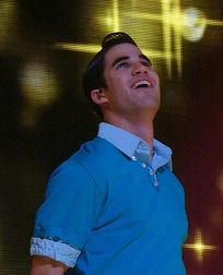 Darren Criss, in character as Blaine Anderson performing "Loser Like Me" on the Glee Live! In Concert! tour in Manchester, England on June 23, 2011.